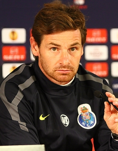 André Villas Boas as a head coach of F.C. Porto